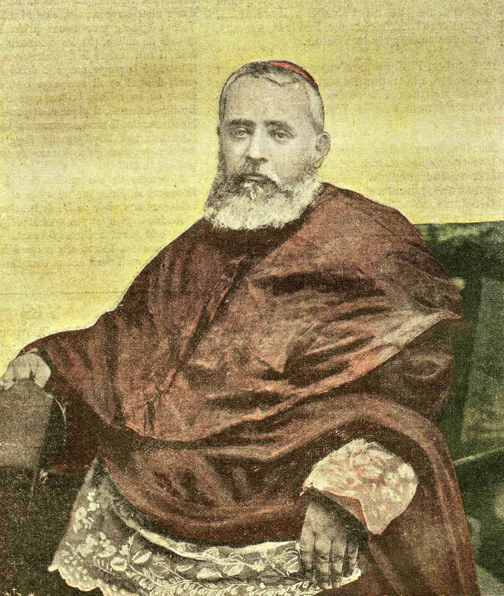 Spanish Cardinal Vives y Tuto